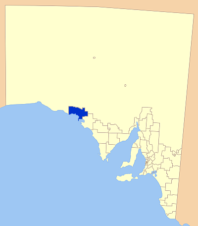 Modification of Astrokey44's original map found here: File:SA_LGA_blank.png Position of Coober pedy LGA